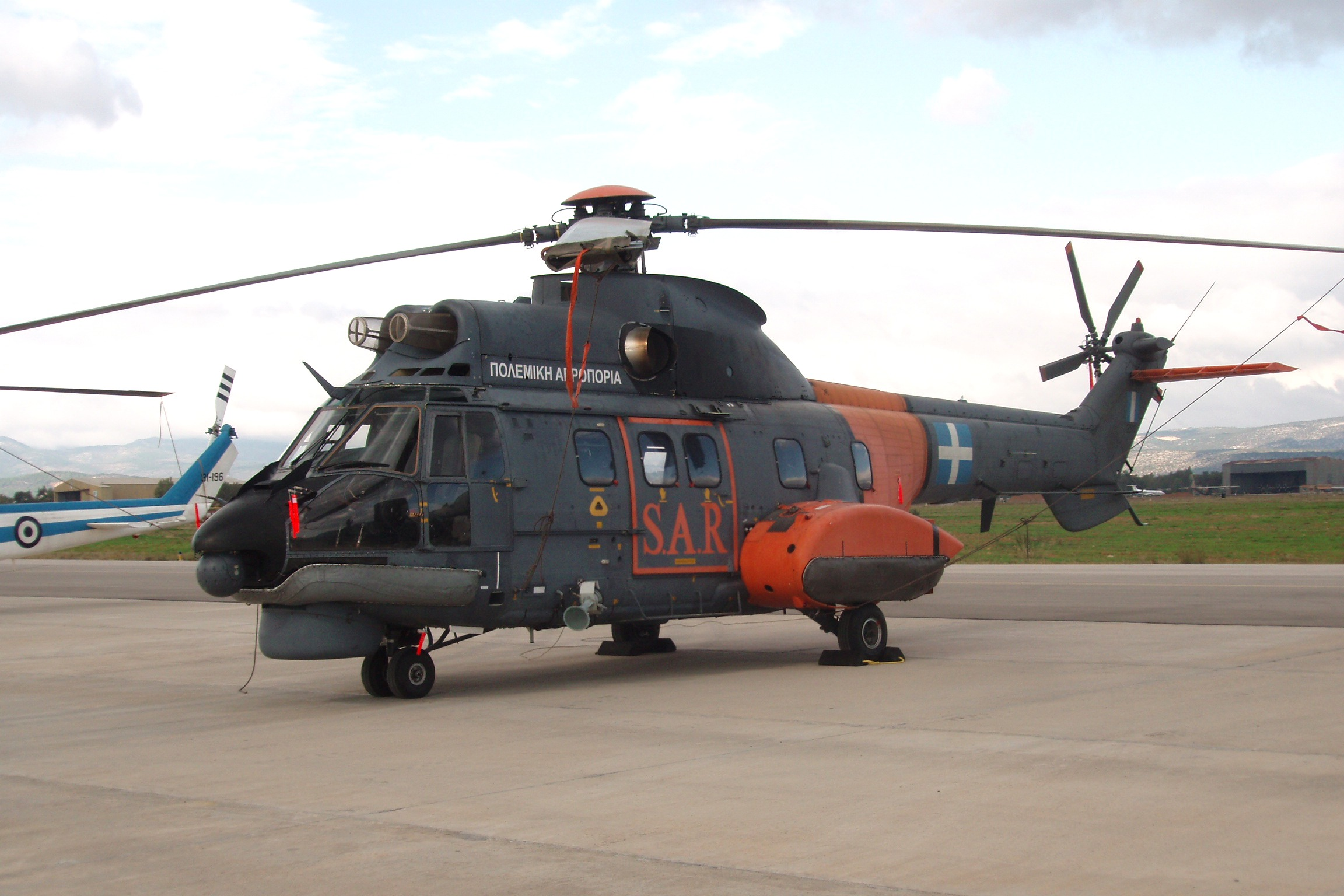 Hellenic AF AS.332 Super Puma SAR helicopter no. 2519 at Elefsis Air Base